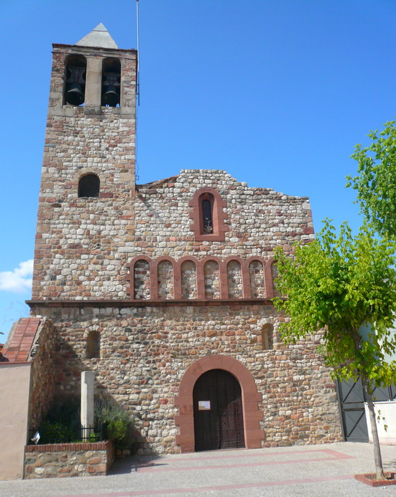 Santa Maria de Montmeló. Includes romanesque remains.